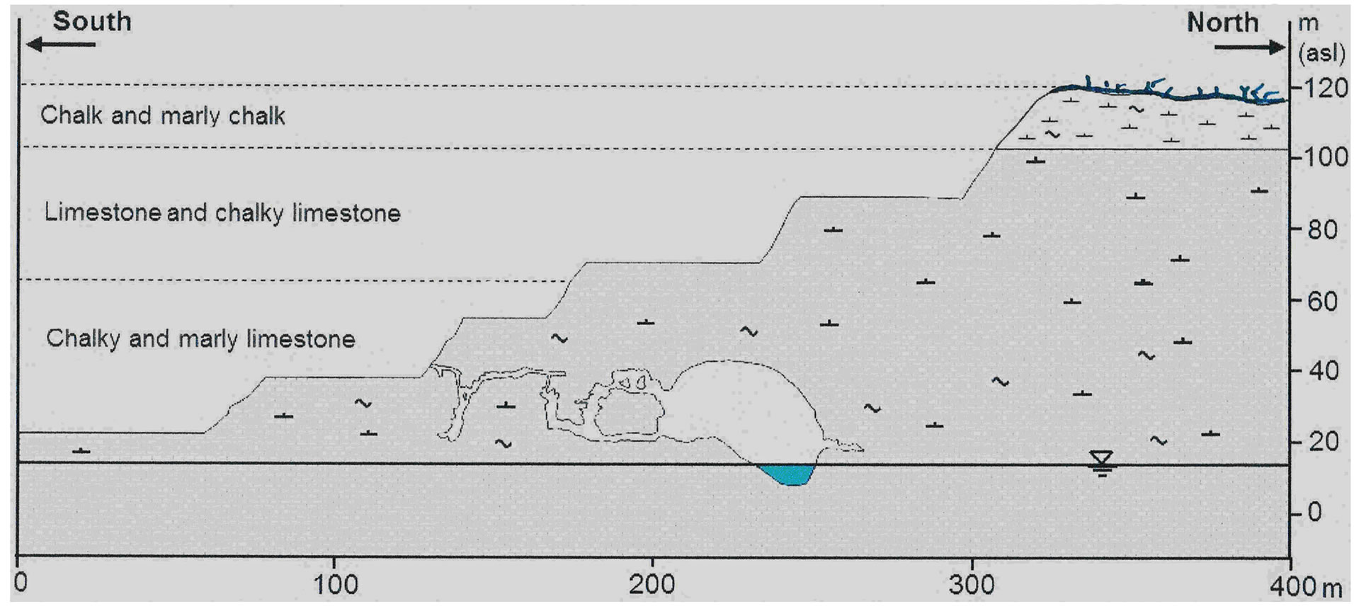 Cross section of Nesher quarry, Israel, showing Ayyalon cave, water table as of May 2006